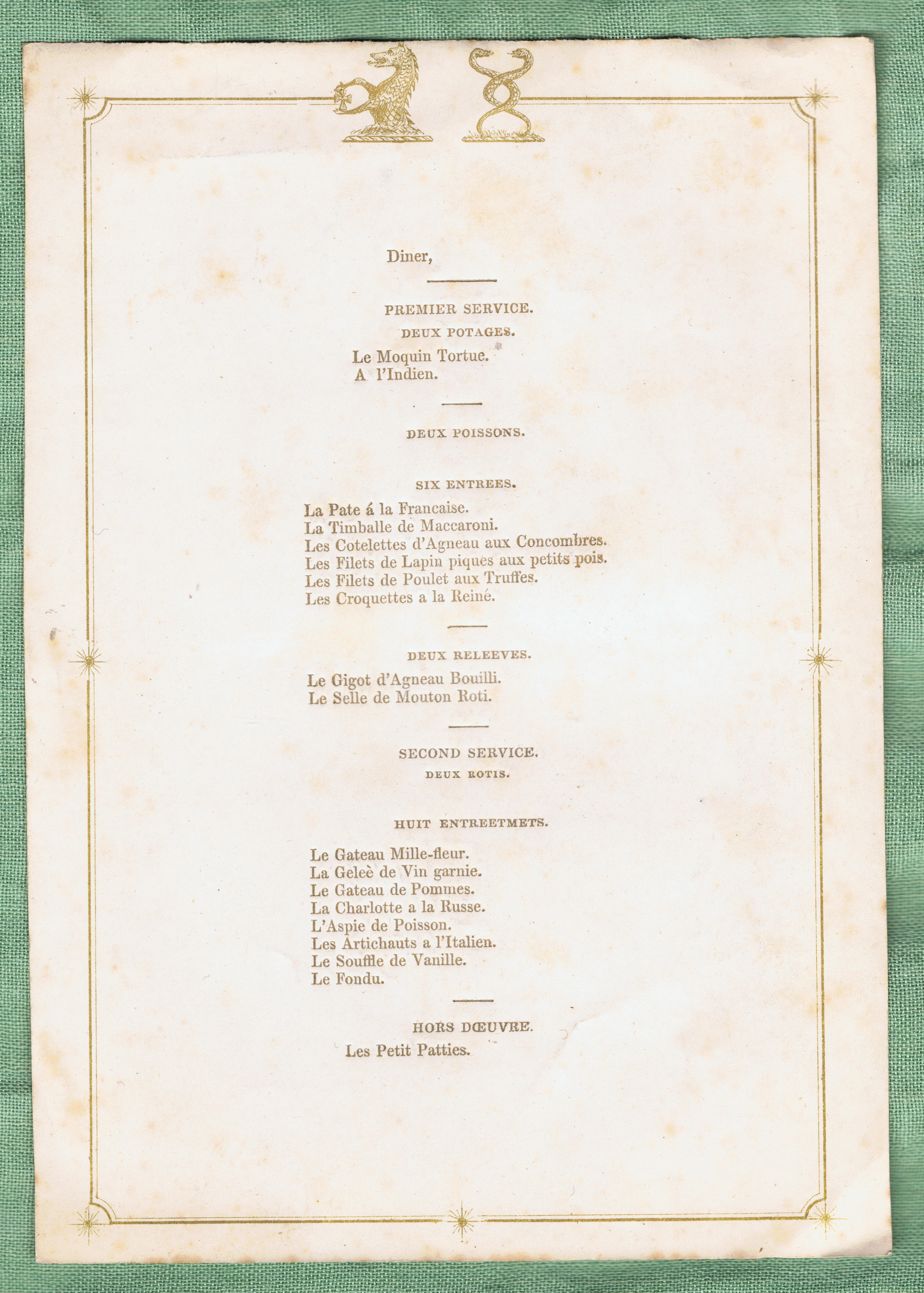 Scan (by me, R. de Salis, Rodolph (talk) 16:18, 14 December 2014 (UTC)) of a menu card with crests of T.-C. Bisse-Challoner, mid 19th century, as used in Mayfair or Surrey, UK.